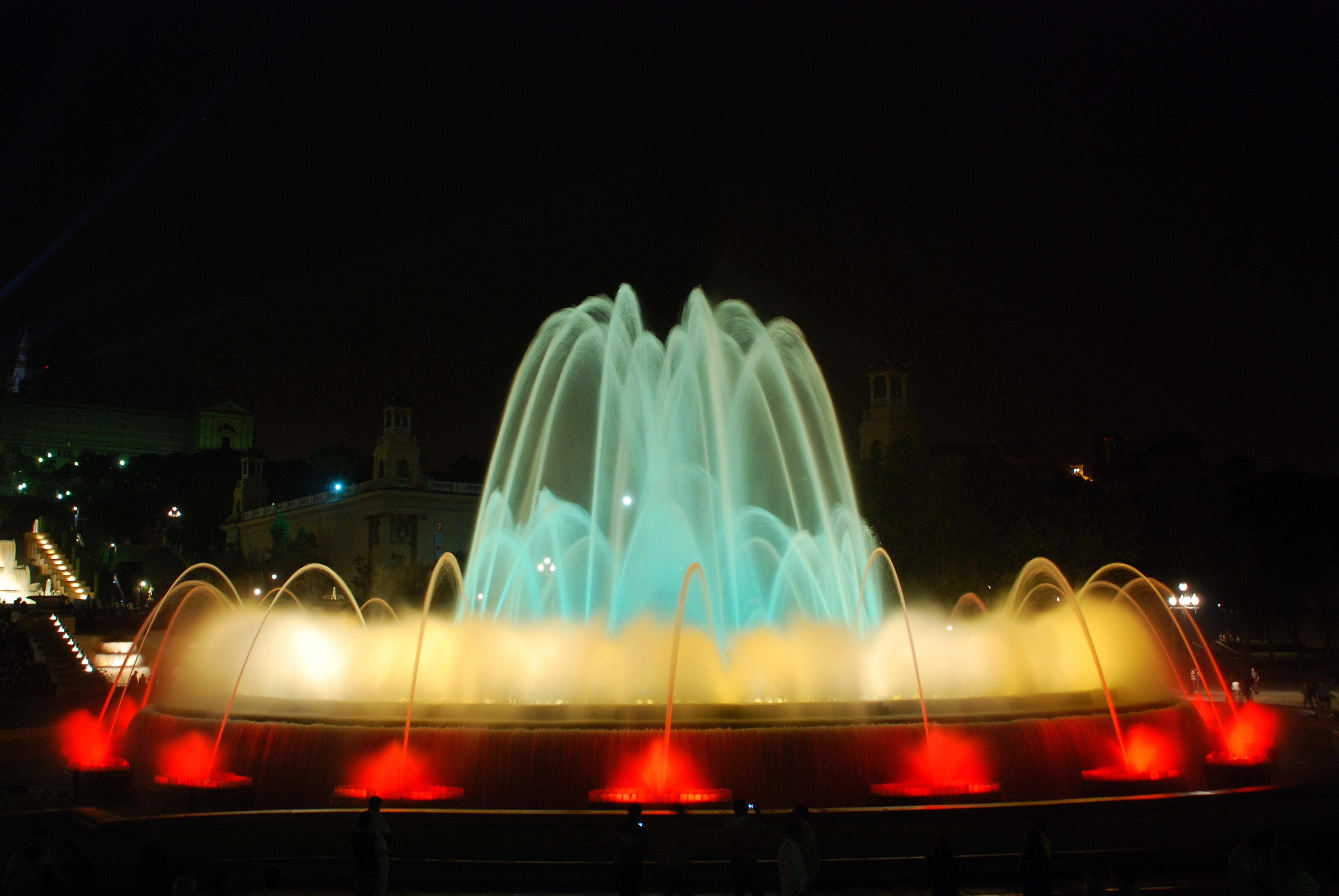 Montjuïc Light Fountain